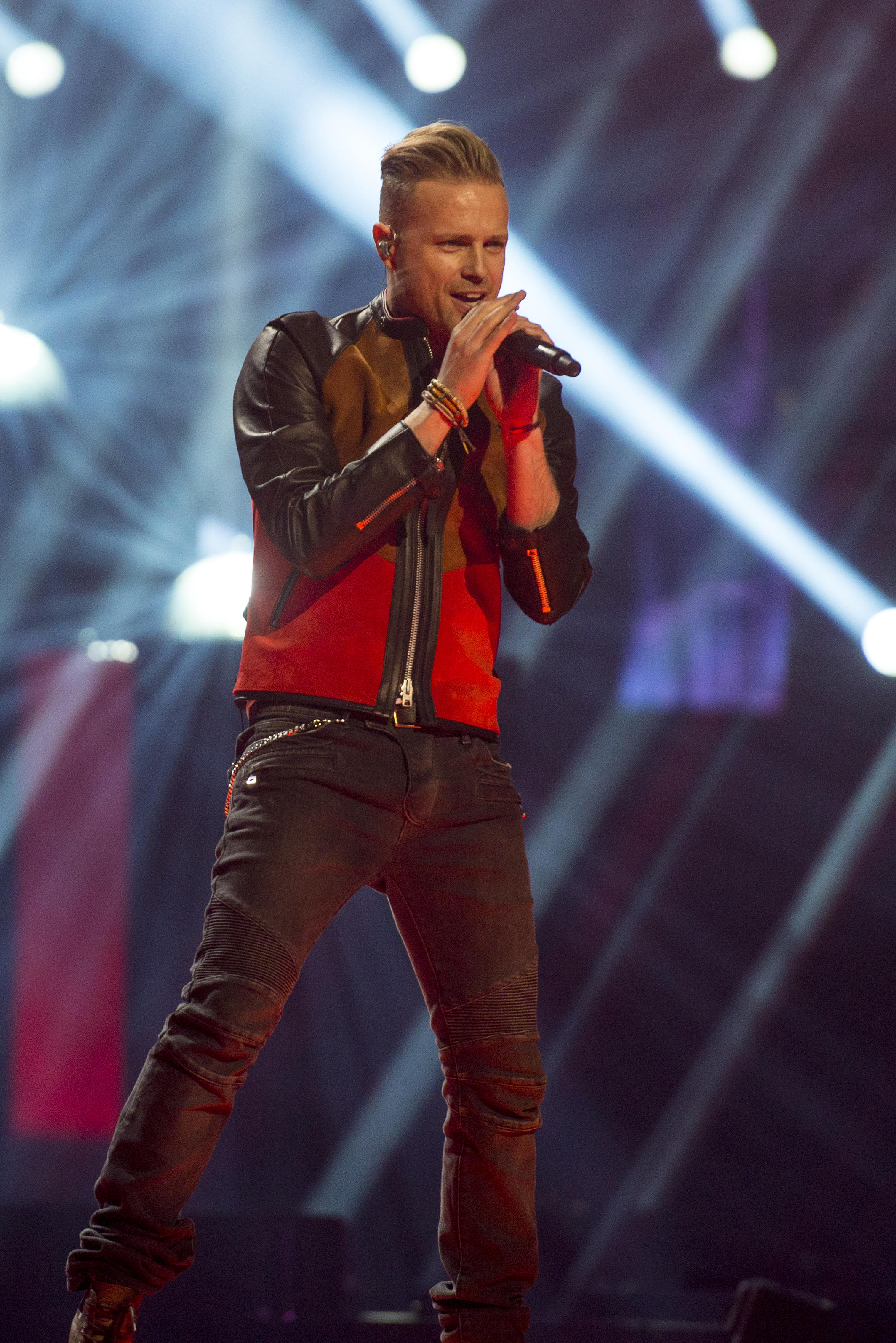 Nicky Byrne representing Ireland with the song "Sunlight" during a rehearsal before the second semi final of the Eurovision Song Contest 2016 in Stockholm. (Help translate this text)